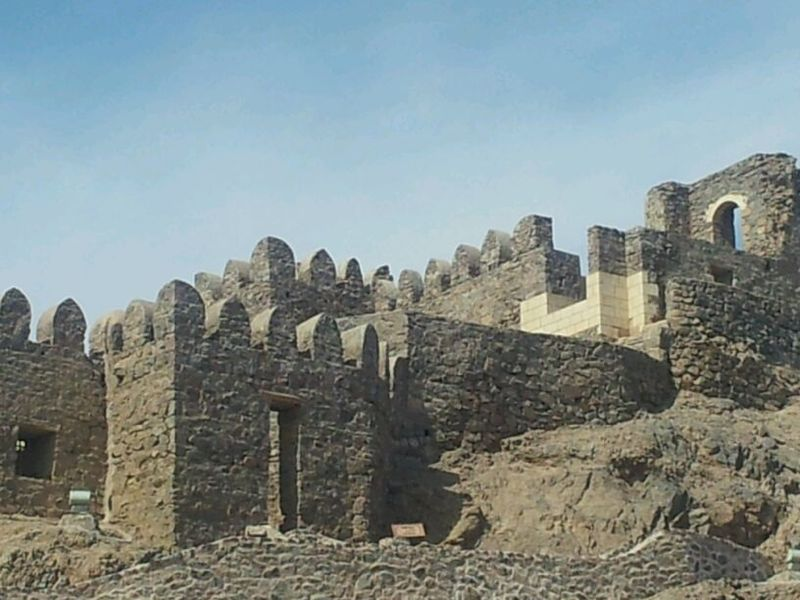 جزيرة فرعون